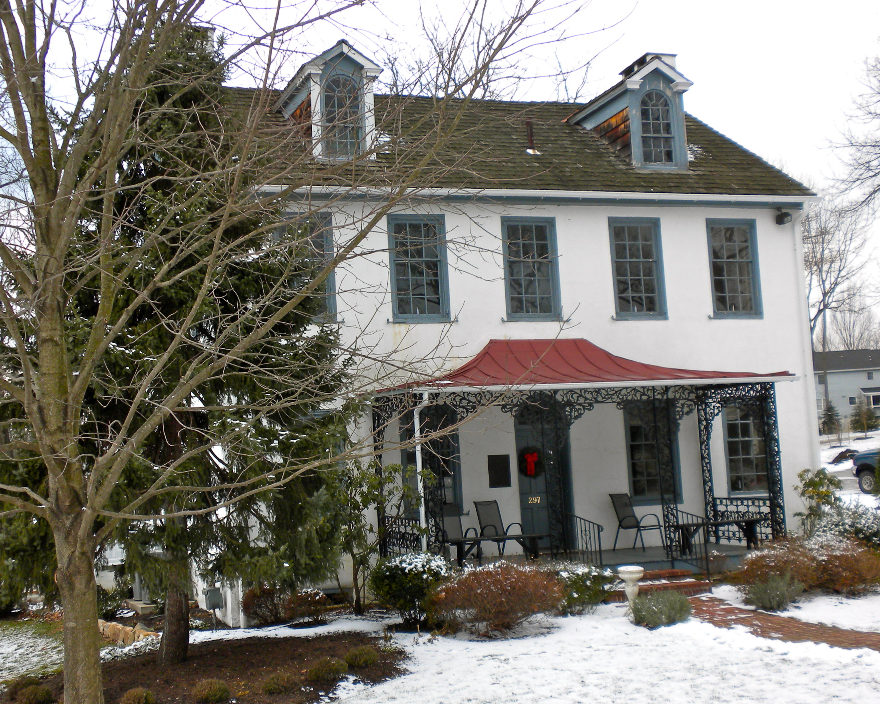 Cressbrook Farm on Adams Road in Wayne, PA 40°4′38″N 75°27′3″W near Valley Forge National Historical Park.